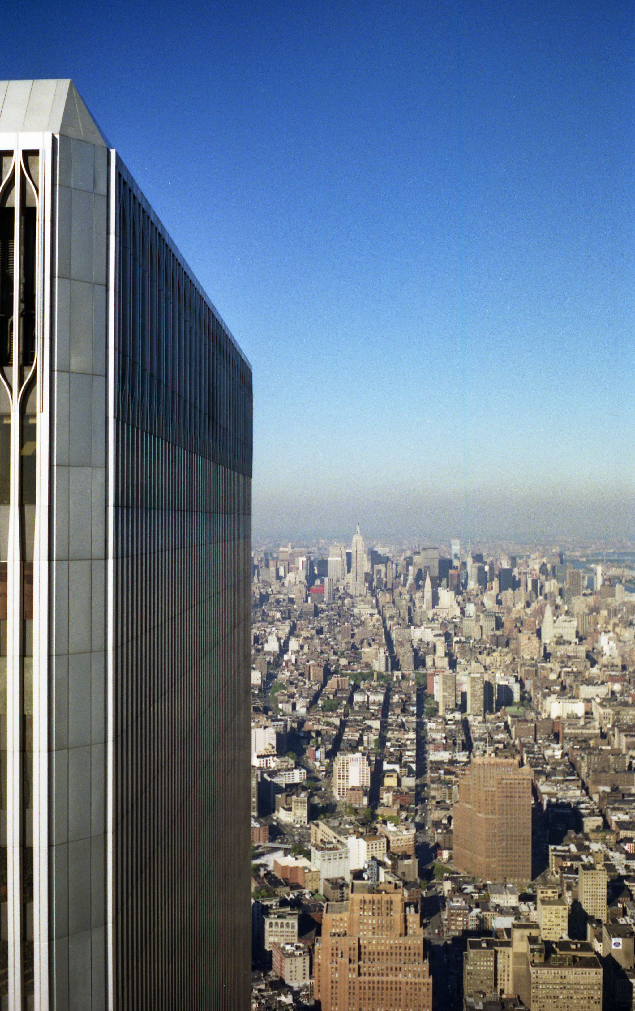 View north over Manhattan from the World Trade Center in 1990